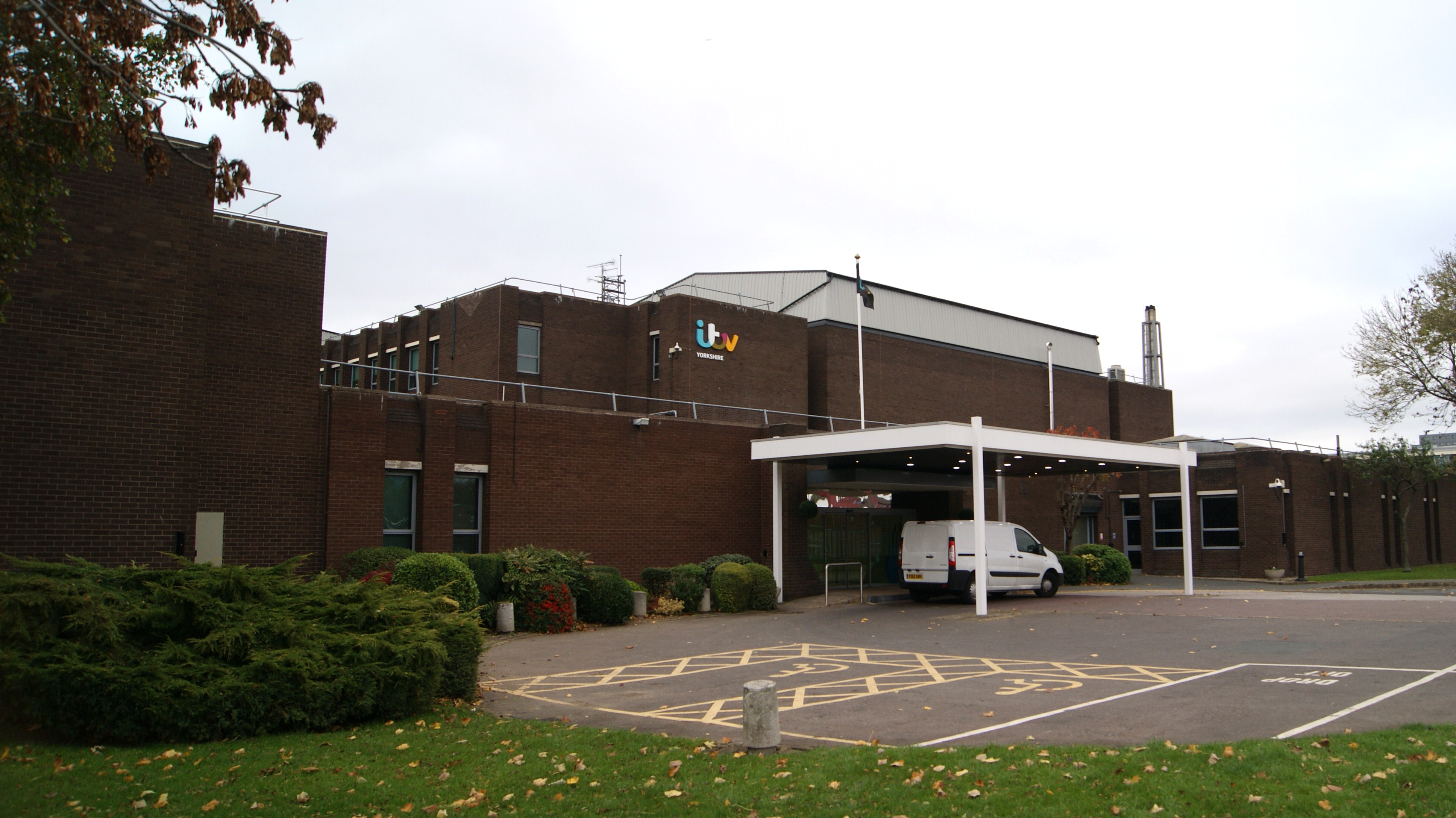 The Leeds Studios, Kirkstall Road, Leeds, West Yorkshire. Taken on the afternoon of Saturday the 16th of December 2013.